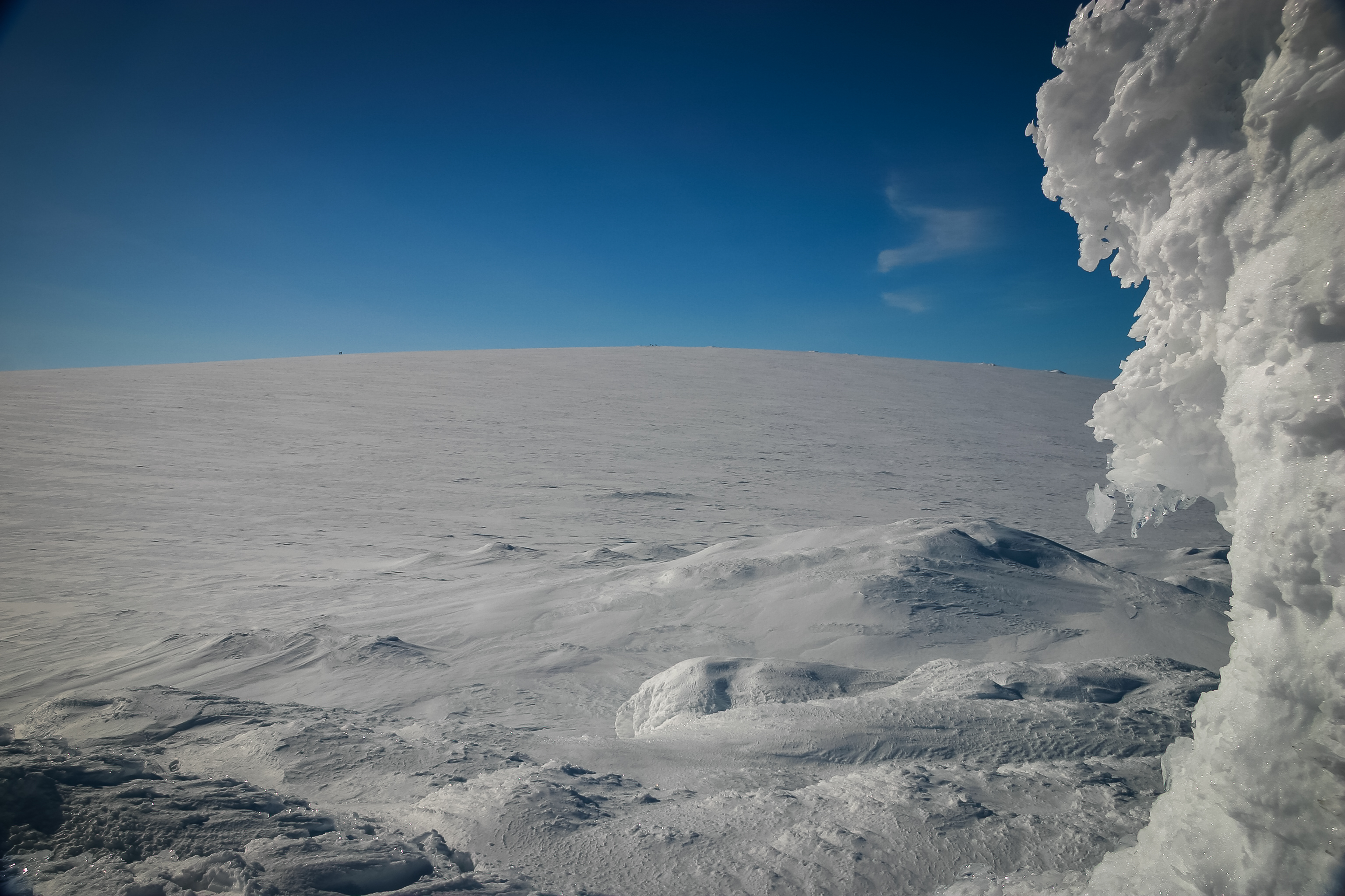 Hardangerjøkulen